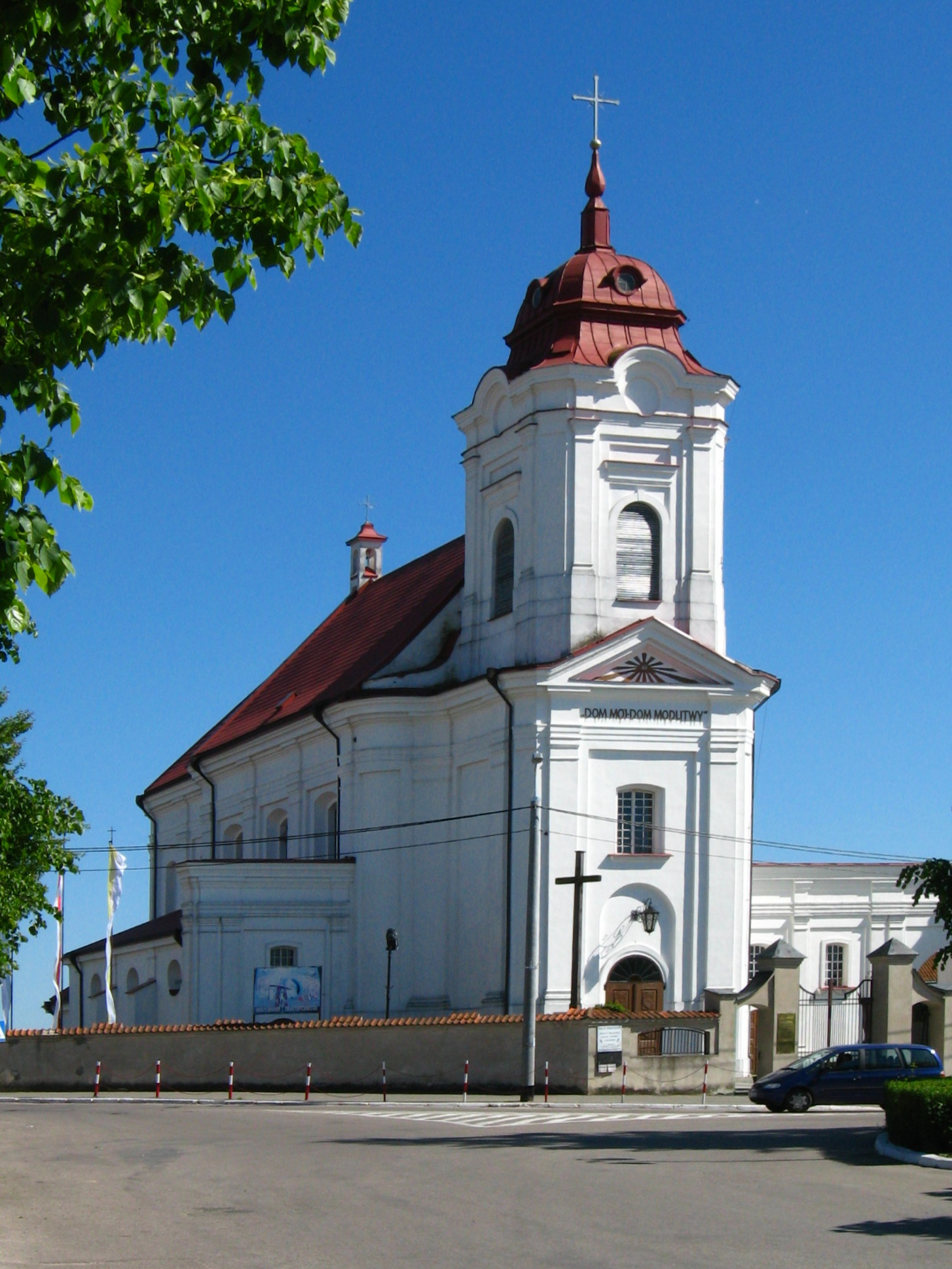 Church of John the Baptist and Saint Stephen at Choroszcz, podlaskie, Poland.